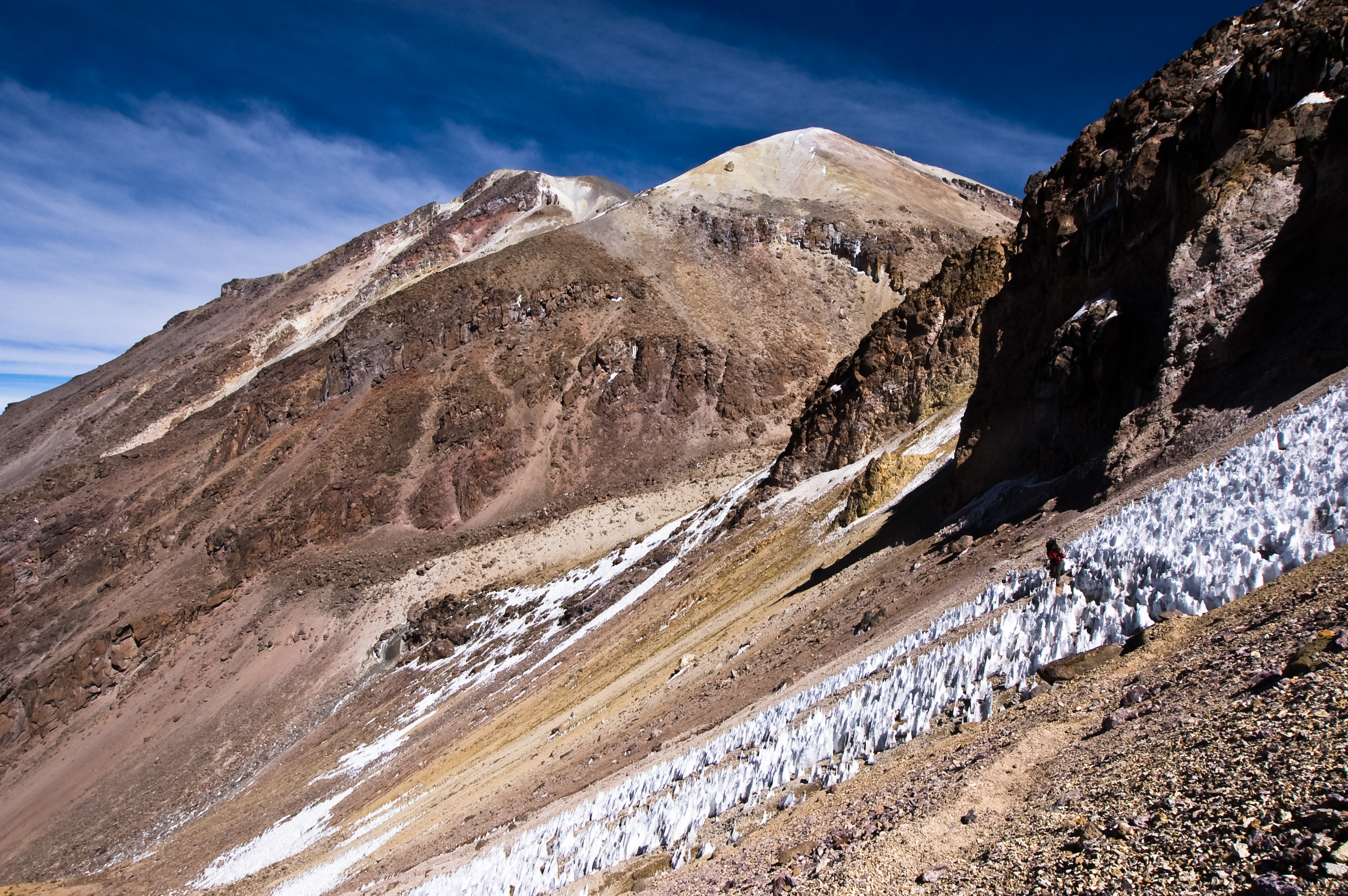 Summit of the Chachani (to the left, seems a bit lower), 6075m high, and Mt Fatima (highest on the photo), the highest of the three volcanoes above Arequipa, Peru, in october 2007. The path to reach the summit can be seen, going almost to the top of Mt Fatima first. Despite the altitude, the mountain is almost entirely free of snow at this time of year, mainly due to the dry climate of the area.